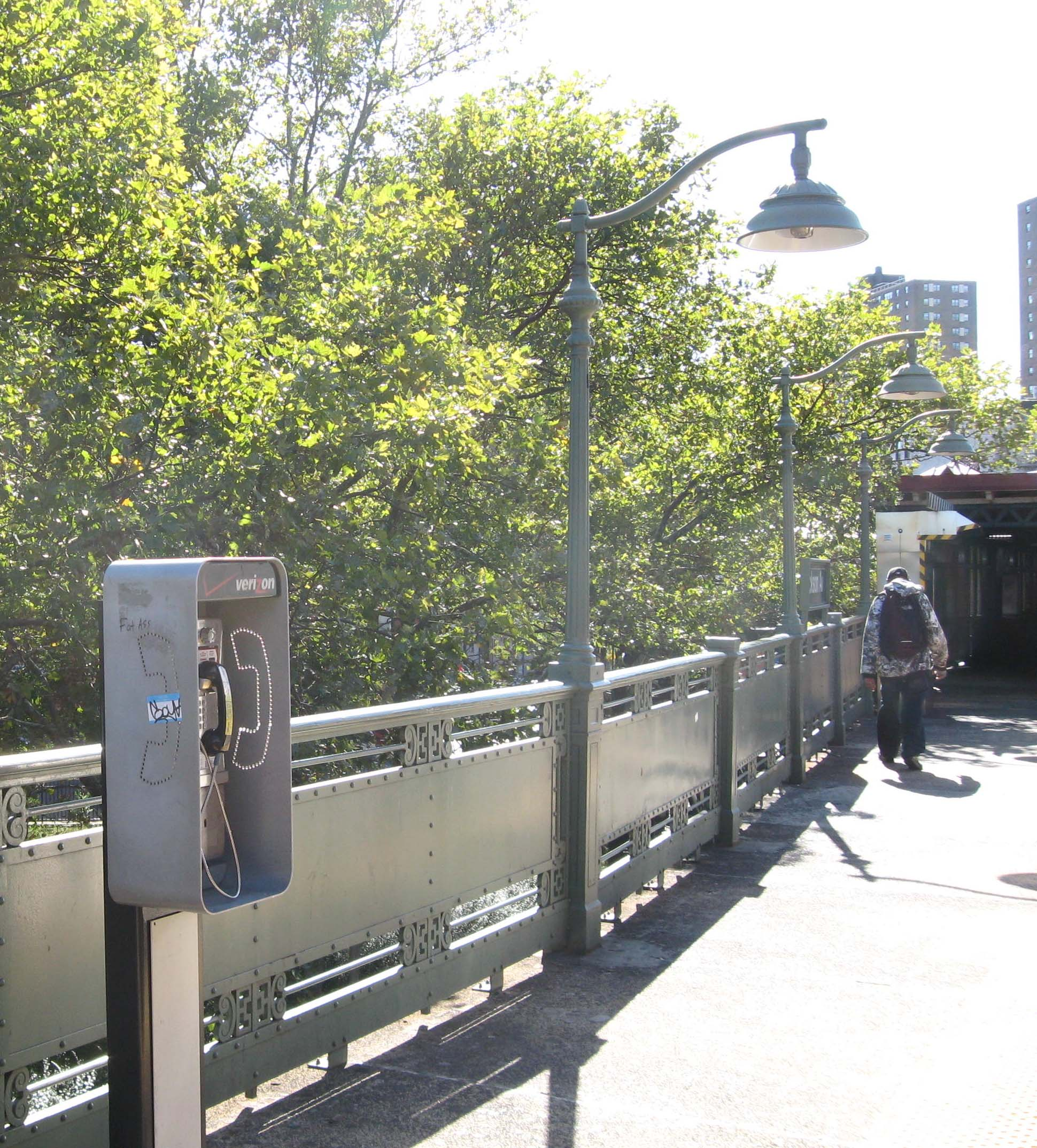 Looking southwest along southern part of northbound platform of Jackson Avenue (IRT White Plains Road Line)